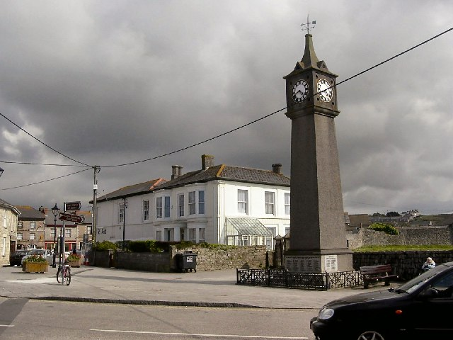 War memorial. War memorial, looking towards St Just village square